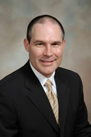 Scott Pruitt, the current EPA Administrator, during his time as an Oklahoma State Senator